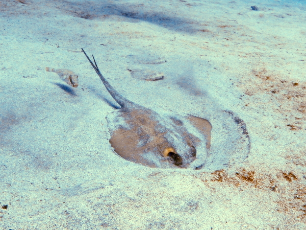 Common stingray (Dasyatis pastinaca) off Tenerife, Canary Islands